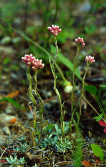 Antennaria microphylla, Clearwater National Forest, USA